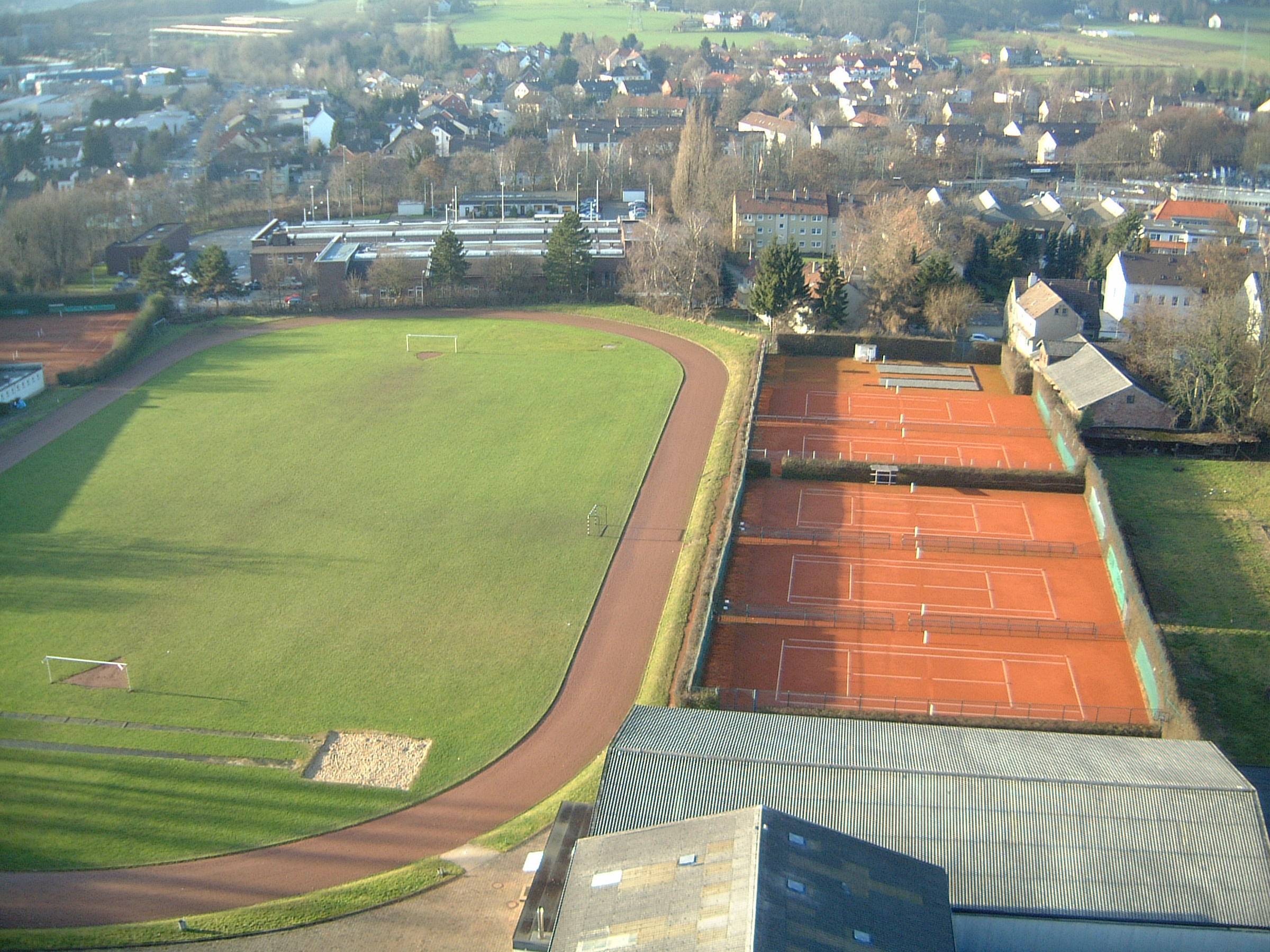 Jahnsportgelände (Jahn sports center) in Witten